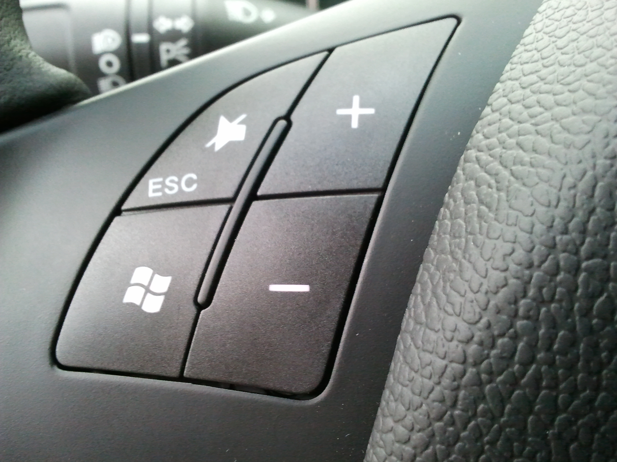 Fiat´s Blue&Me